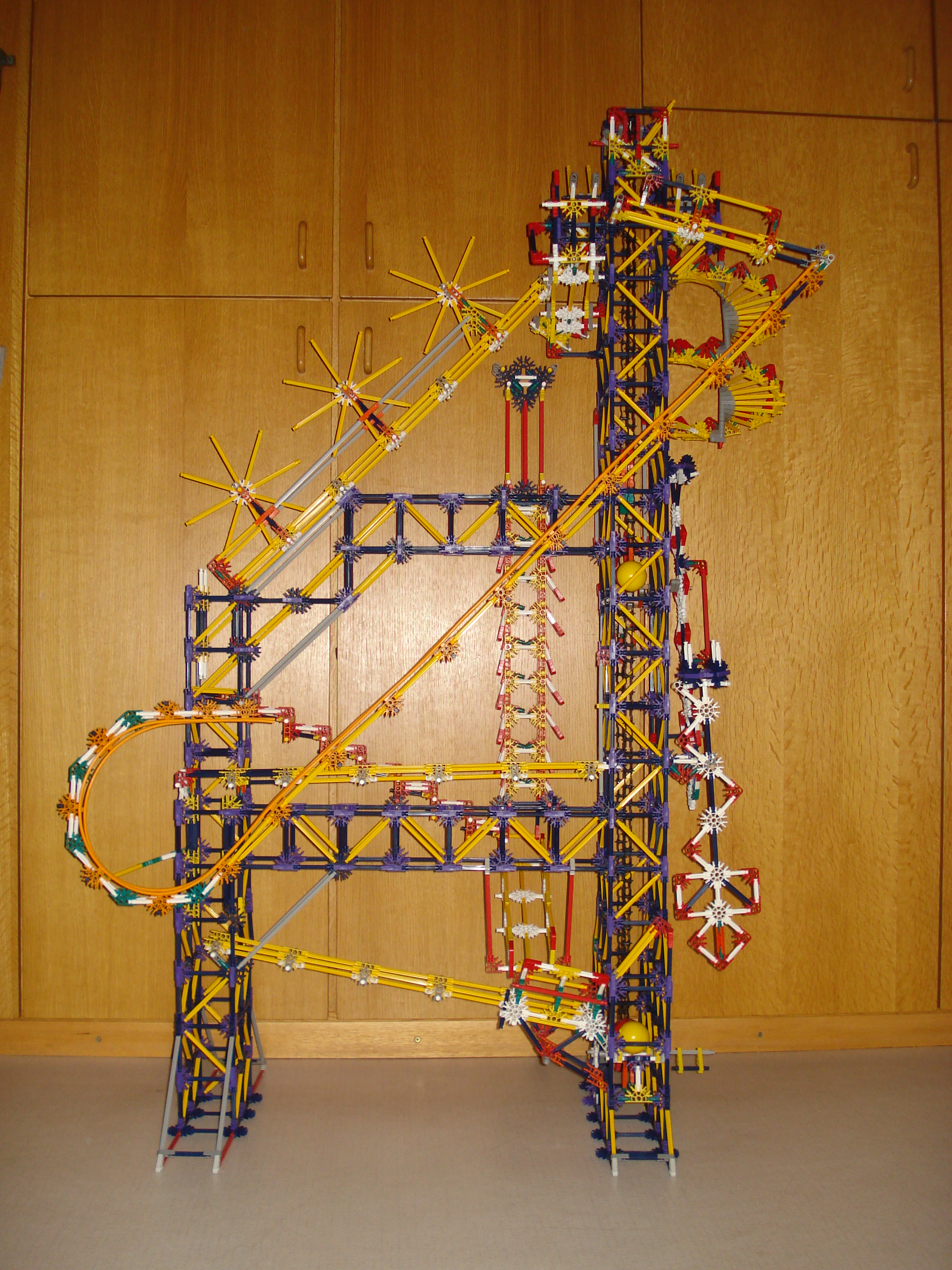 K'nex Big Ball 1.5m high